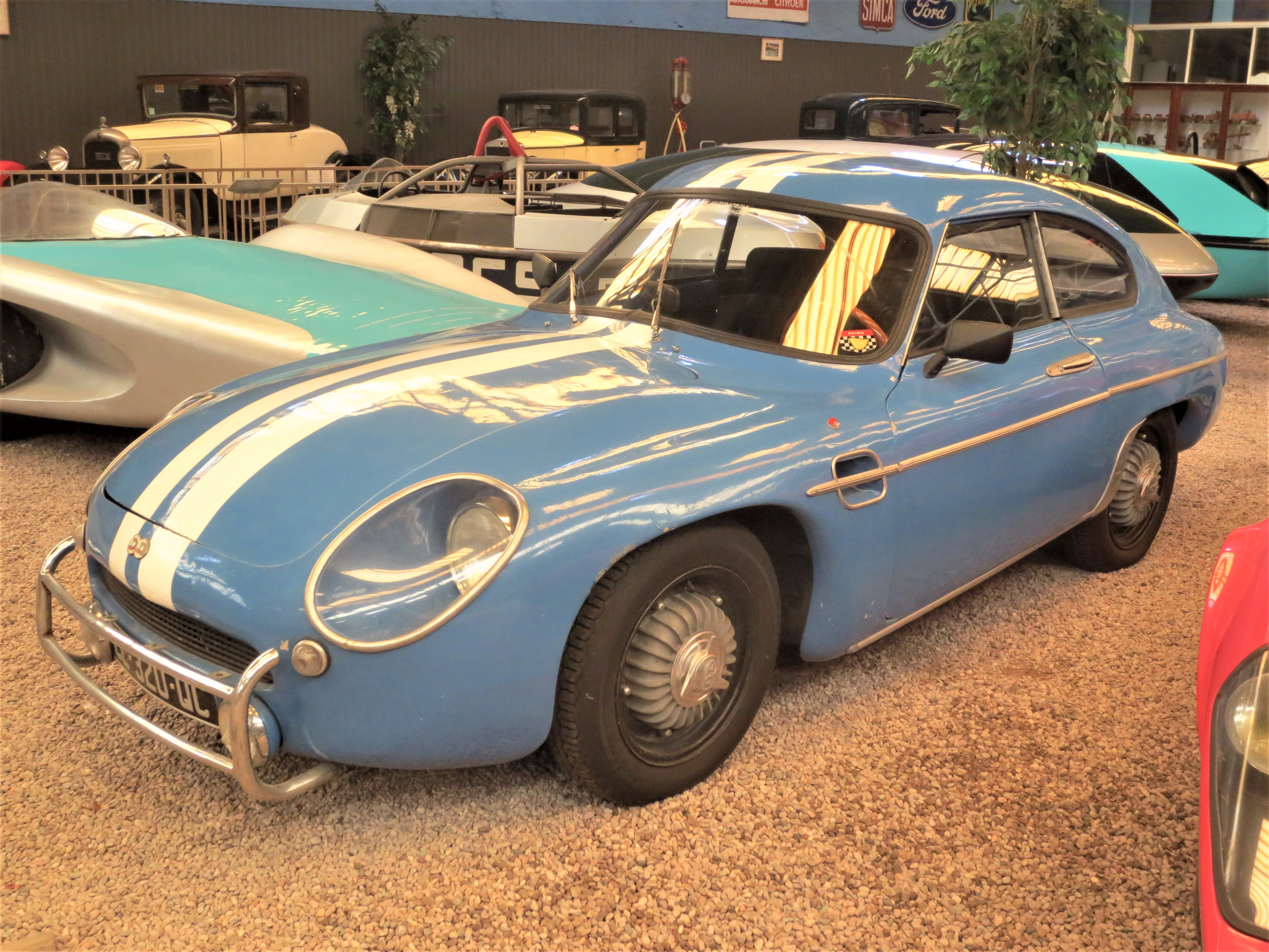 Subject: DB HBR5 Coach 1956 Author: Luc106 Date:May 1st, 2015 Place/Country: Musée automobile de Reims-Champagne I release all rights in the public domain.